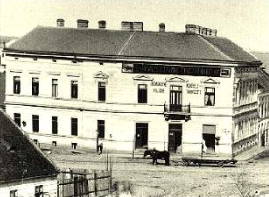 According to Tóth, Ferenc, ed. (2000). "Szeged". Csongrád megye építészeti emlékei [Architectural monuments of Csongrád County (in Hungarian). Szeged, Hungary: Csongrád Megyei Önkormányzat. ISBN 978-9-637-19328-6] the photograph was taken by Lázár Letzter (1832-1913?) in 1883. (Letzter formed a partnership with Lipus Lauscher, which operated as Letzter-Lauscher until WWI. After the war, Lauscher continued to photograph in his own name.) The original house was destroyed in the flood of 1879 and a permit to rebuild issued in 1881. The image represents how the school appeared in 1883 and the sign under the eaves is for Irma Keméndy-Drucker's Institute..